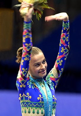 (L-R) Photograph of rhythmic gymnast Yulia Barsukova of Russia (gold) as she celebrates winning All-Around medals at Olympic Games on September 29, 2000 at Sydney, Australia. Photo by Tom Theobald and released into the public domain.